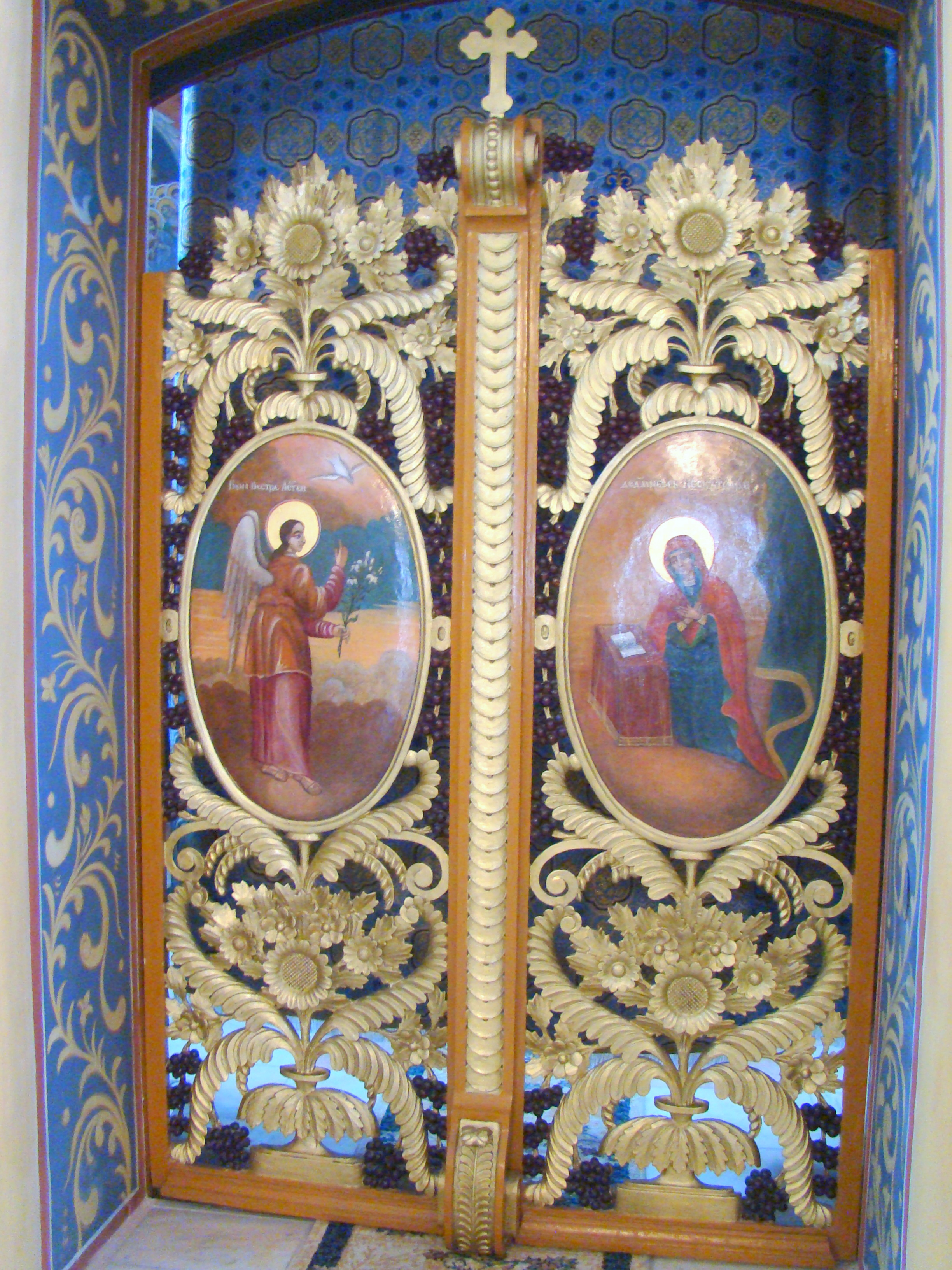 Saint John the Baptist's church in Caransebeș, Caraș-Severin county, Romania